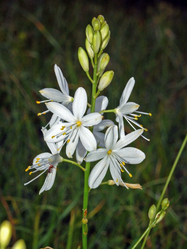 Anthericum ramosum - Val Noci, Genova, Italy